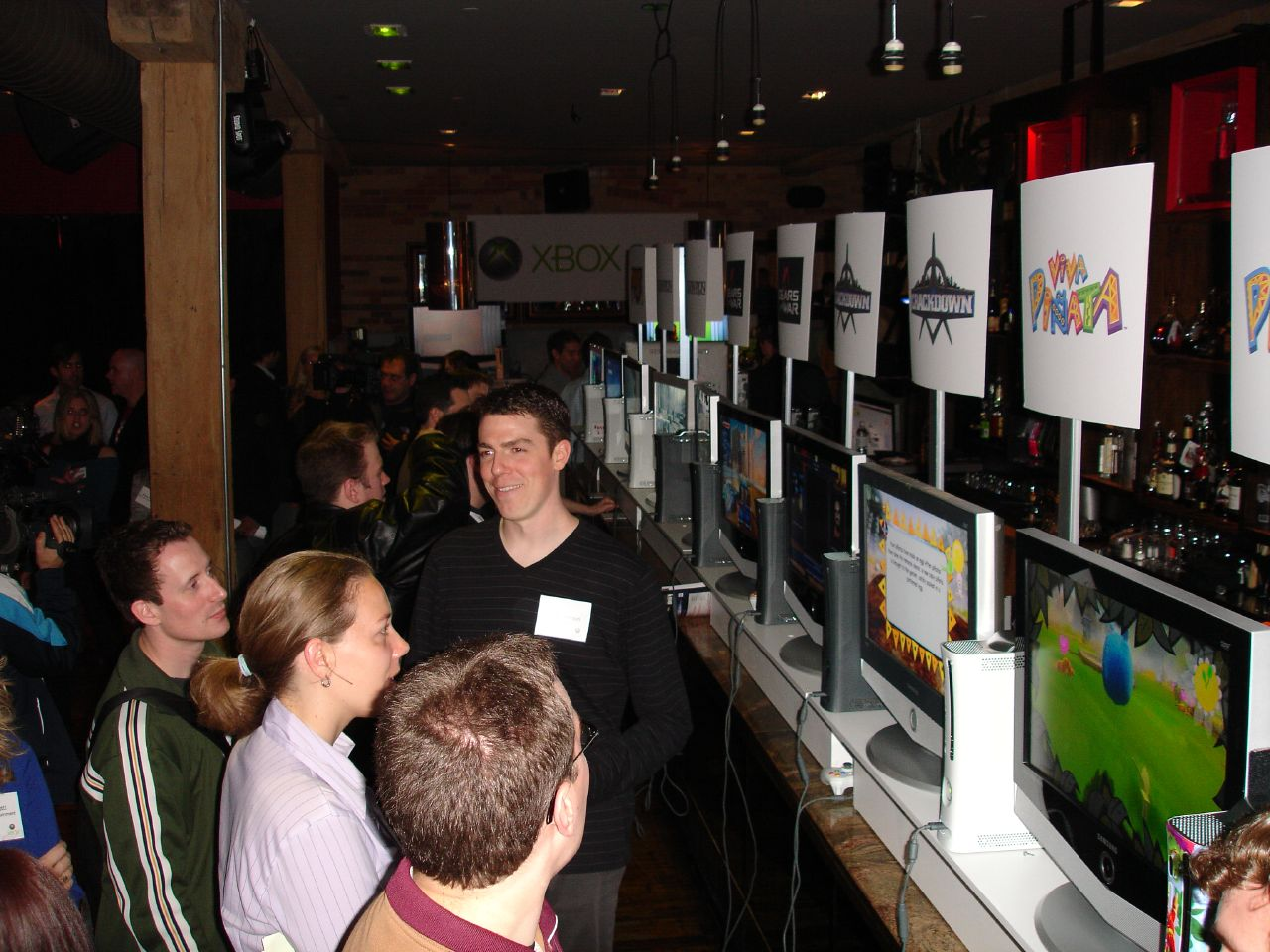 X06 Canada expericing area is categorized by software developers' name.